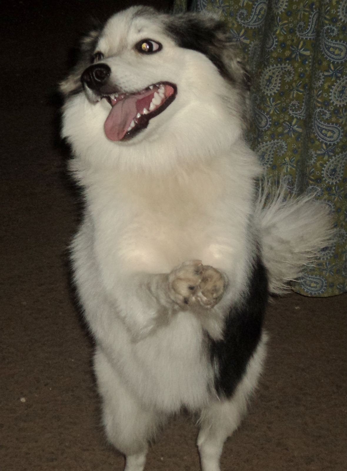 Foto walk,the wikipedia workshop event-december-2011, Salem, Tamil Nadu